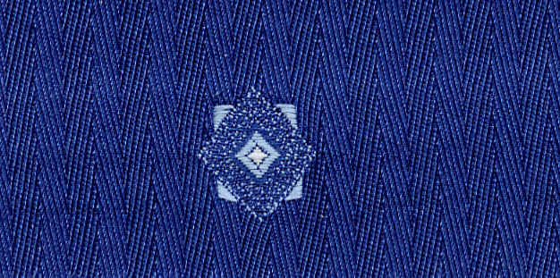 Charvet weave sample with pattern